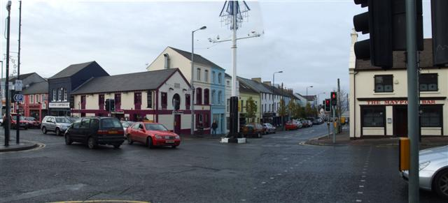 Road Junction, Holywood The famous maypole, reputed to be standing here from 1700, is located at the intersection of Shore Road, Church Road and High Street